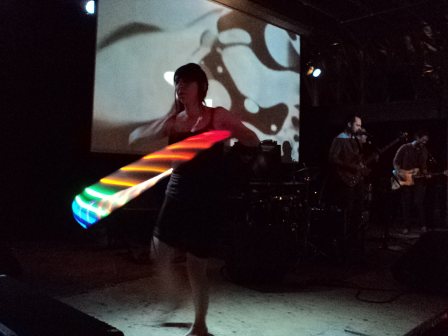 An anachronistic yet retro psychedelic hula hoop at a performance at the Visual Arts Collective in Garden City, Idaho in March 2011.